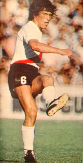 Argentine player Daniel Passarella kicking a free throw for River Plate